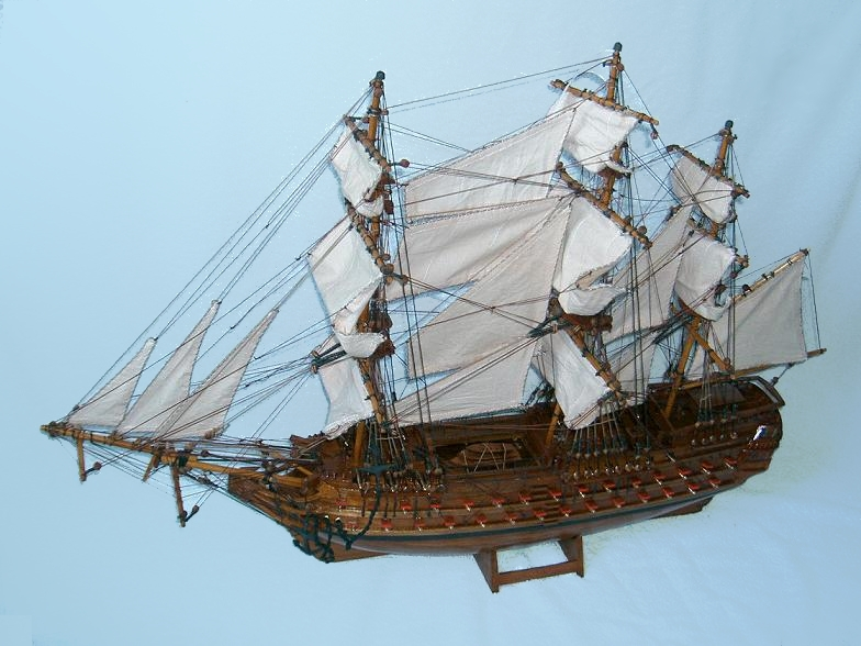 model of the superbe